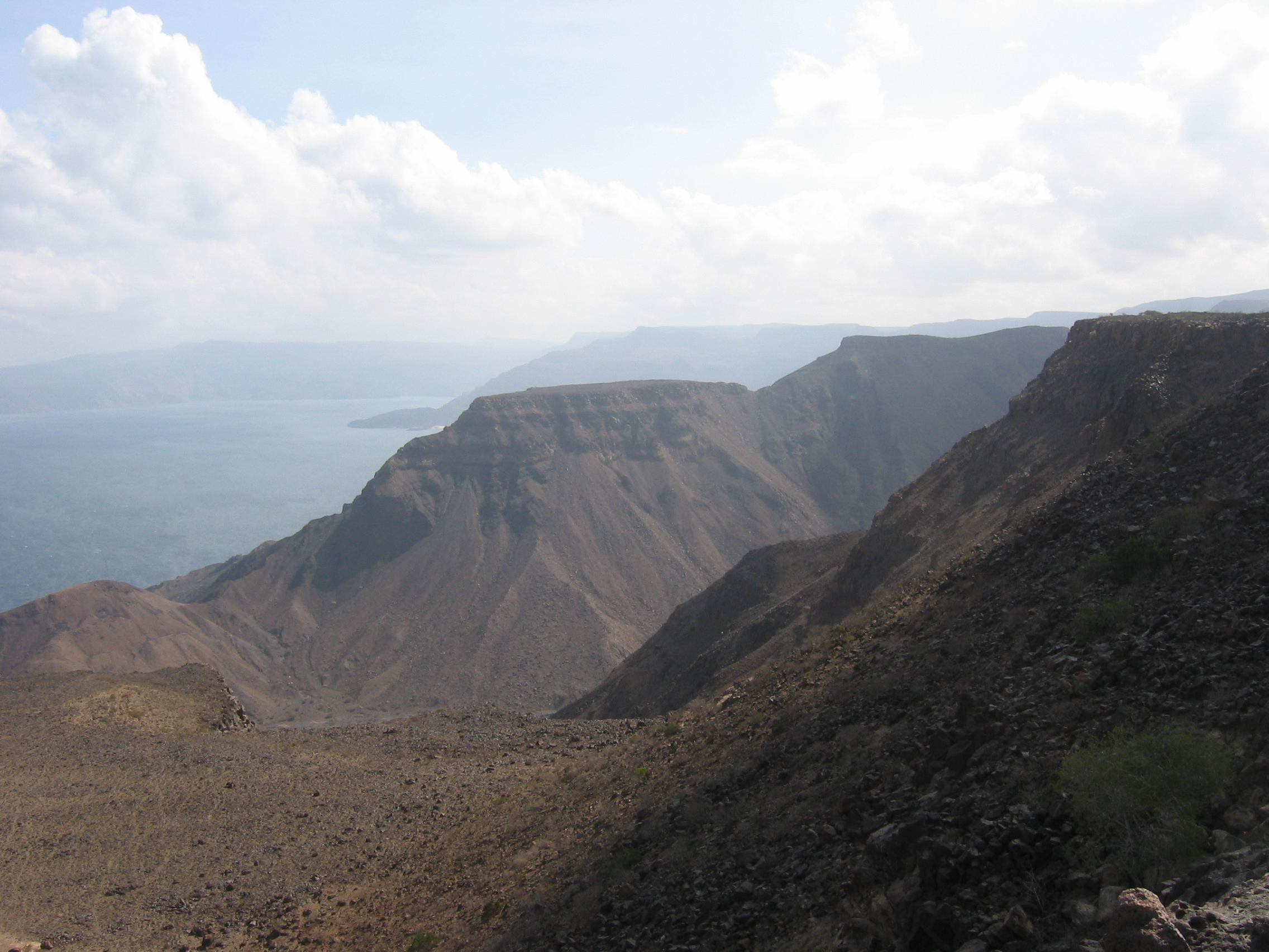 Djibouti landscape at Goubet bay jan 2008